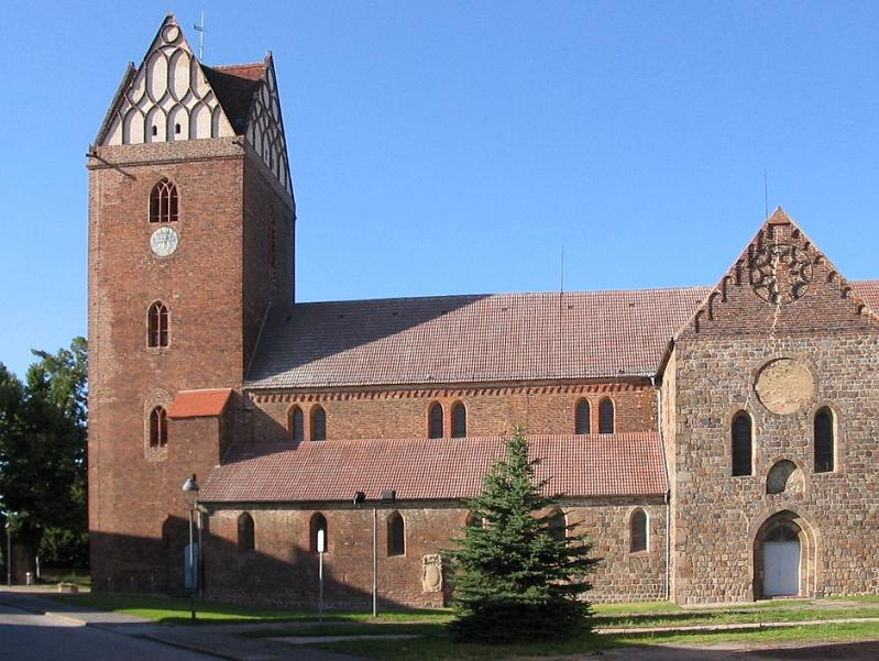 Sankt Marienkirche (cruciform basilica) in Treuenbrietzen. The town is situated in the district Potsdam Mittelmark, state Brandenburg, Germany, in the landscape Fläming.